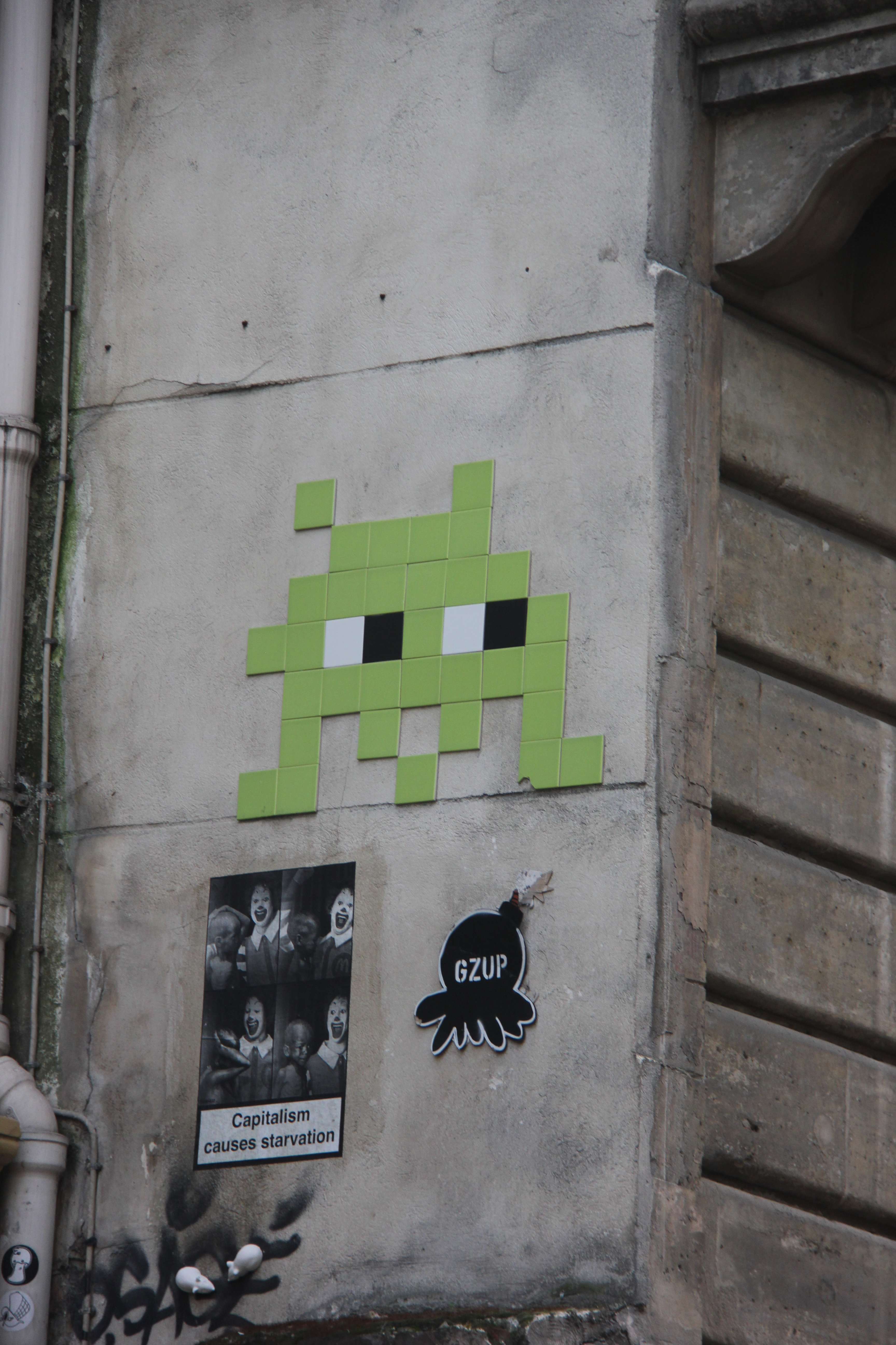 Space Invader in Paris